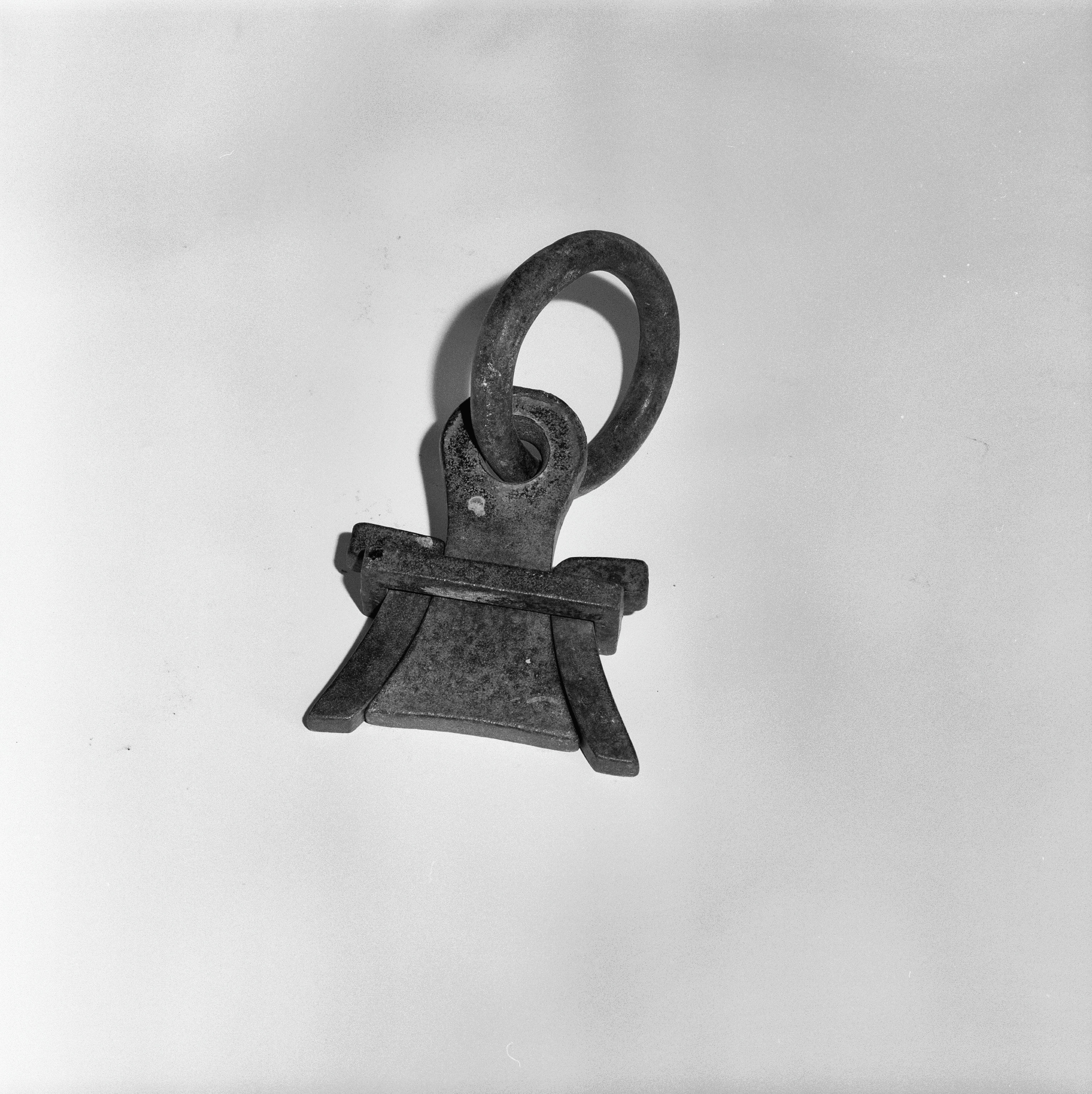 A three-legged lewis, also known as a dovetailed lewis, St Peter's keys, or a Wilson bolt